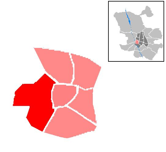 Mapa del barrio Palacio de Madrid